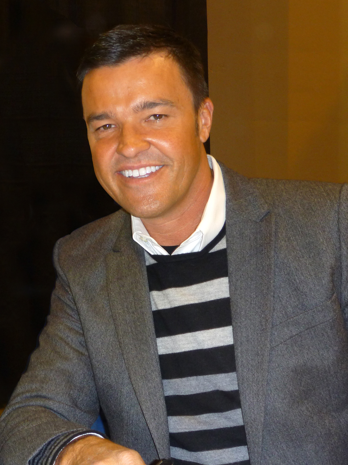 Michael Moloney at the Omaha Home & Garden Expo. Cropped and digitally altered to remove another person.